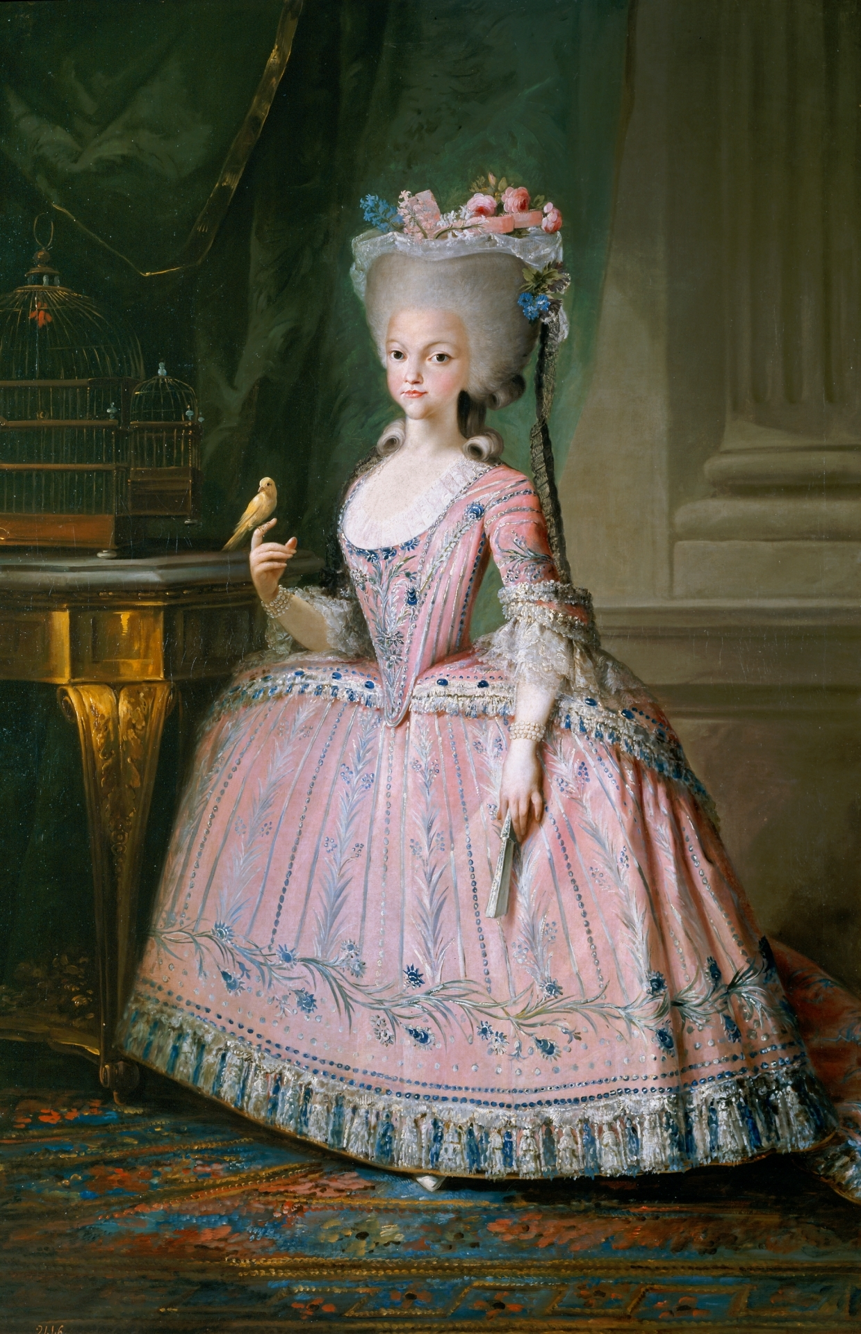 Carlota Joaquina de Bourbon, Queen of Portugal and Princess of Spain (1775-1830)